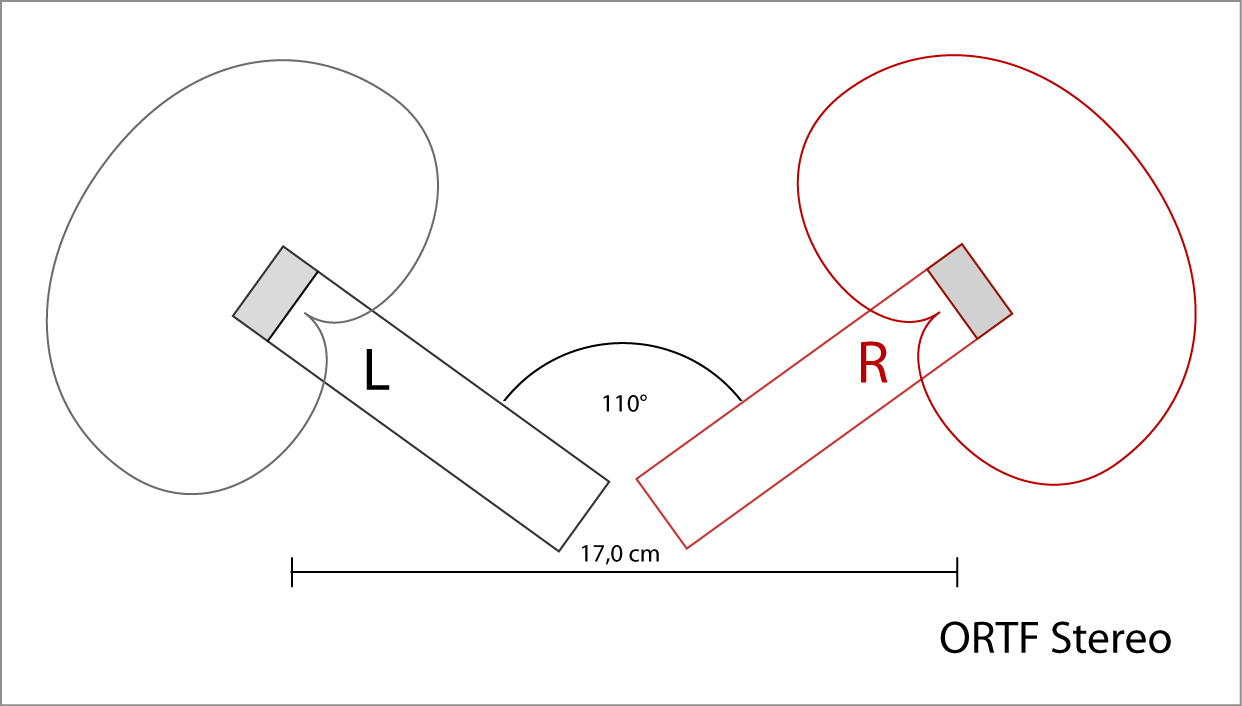 ORTF stereo microphones